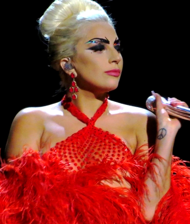 Gaga on the Cheek to Cheek tour